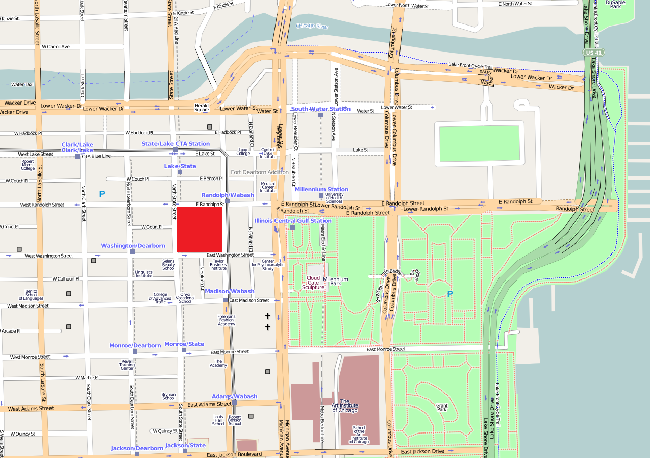 Marshall Field and Company Building in Chicago Loop This map may be incomplete, and may contain errors. Don't rely solely on it for navigation.